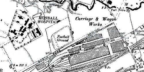 A section of a pre-1945 Ordnance Survey map centred on the location of North Road stadium, Clayton, Greater Manchester.